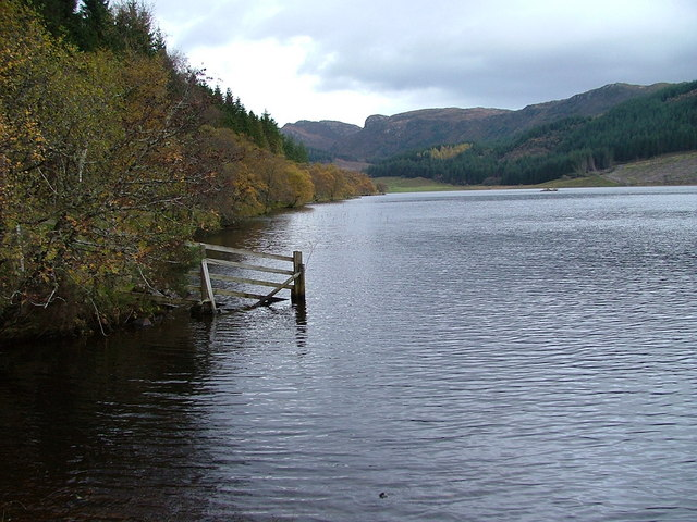 Loch Achaidh na h-Inich A hidden gem 2.5km east of Duirinish.